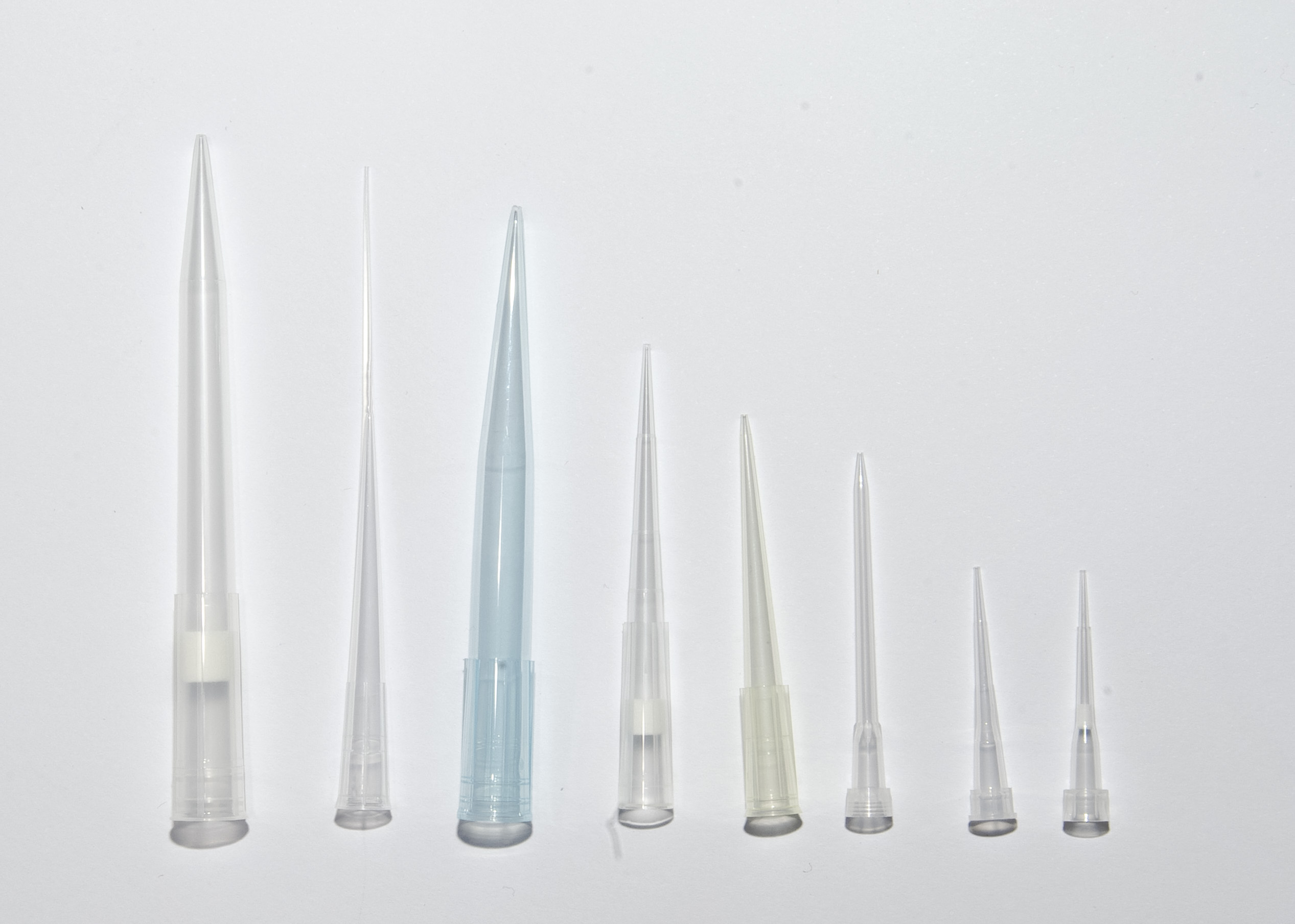 Different size pipette tips